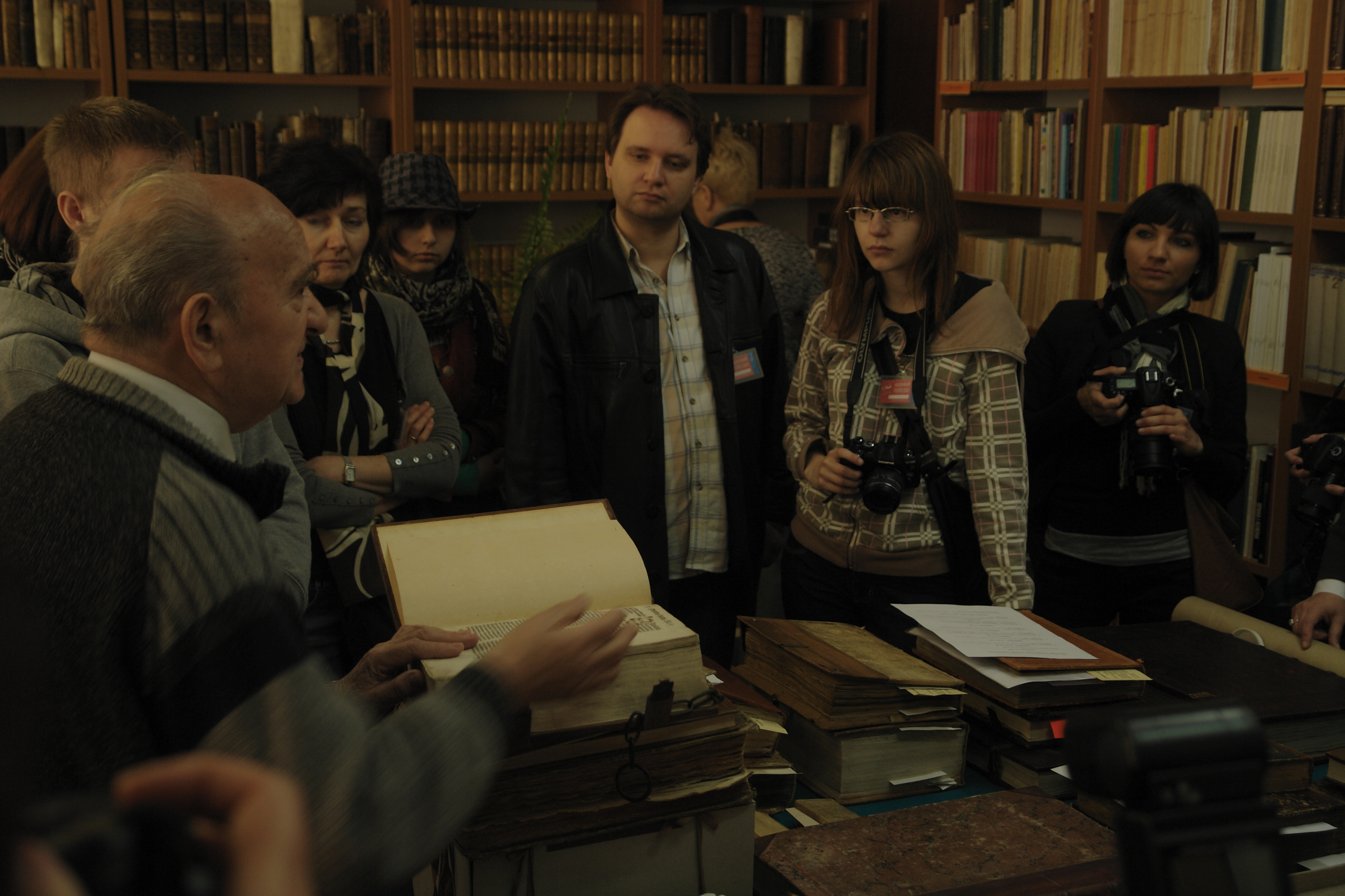 The Norwid Library in Zielona Góra; its former director, Grzegorz Chmielewski PhD, talks about the first years of the institution (The meeting organised by local media)